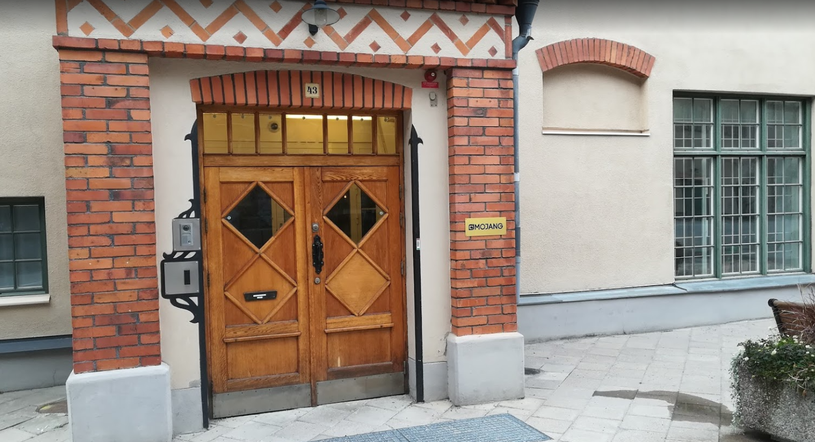 Mojang HQ Office (Mojang HQ is moved) and Photographed at Stockholm, Sweden in August/2018